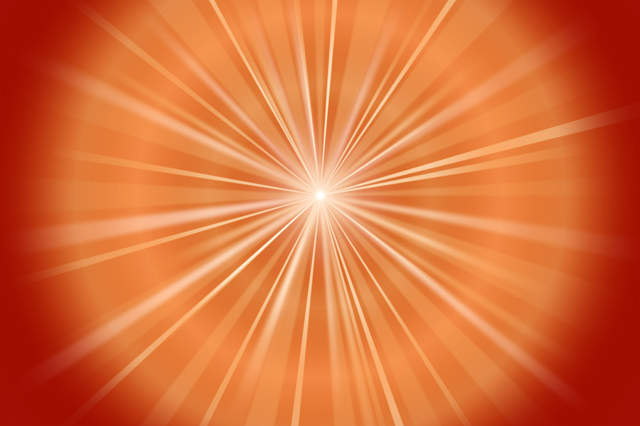 The image of the Supreme Soul as a point of light